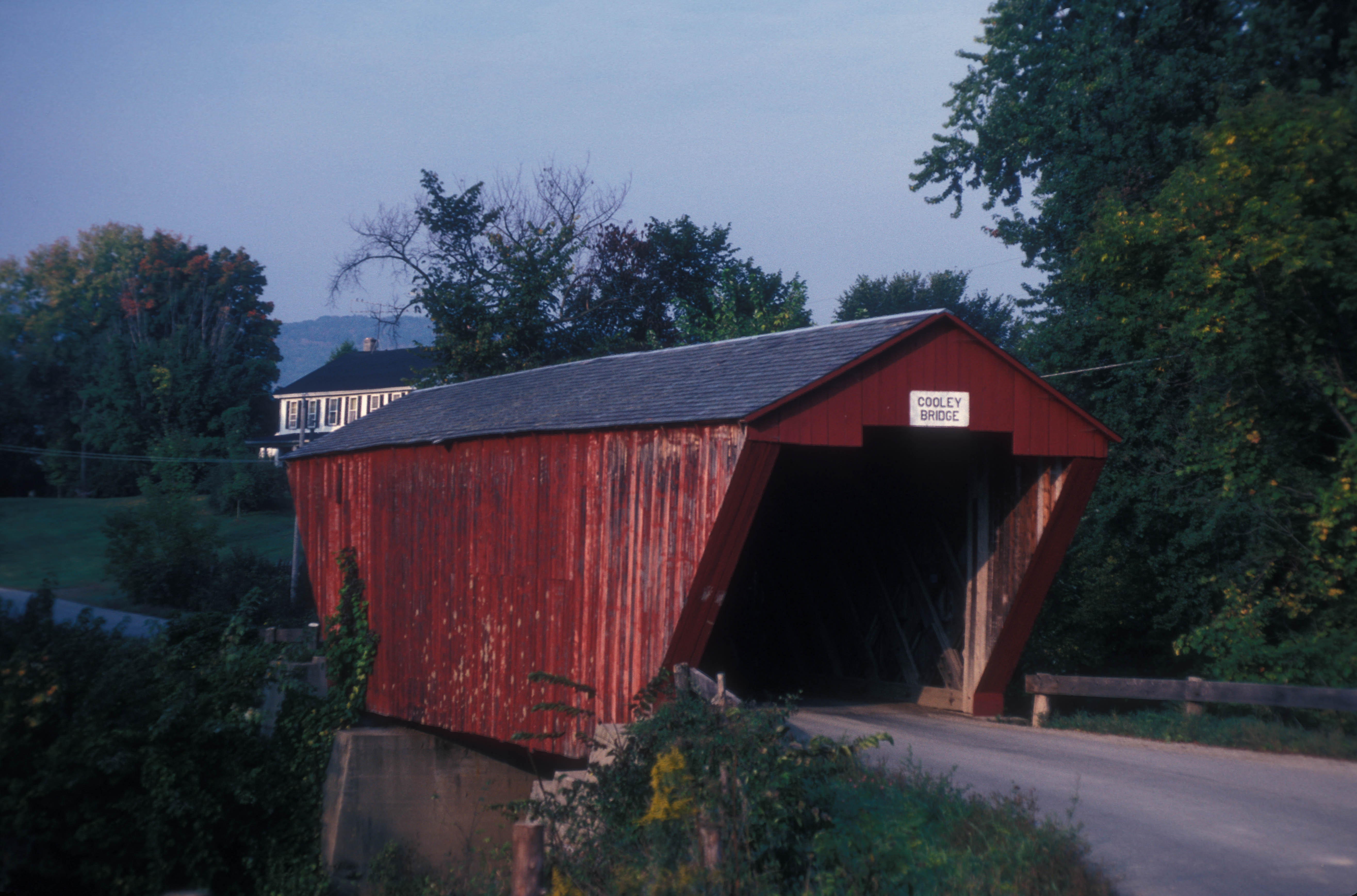 1849 TOWN; 53’ OVER FURNACE BROOK